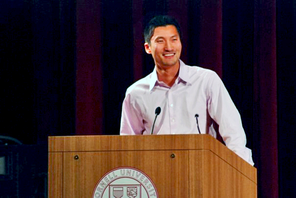 Survivor: Cook Islands winner, Yul Kwon, delivers speech.